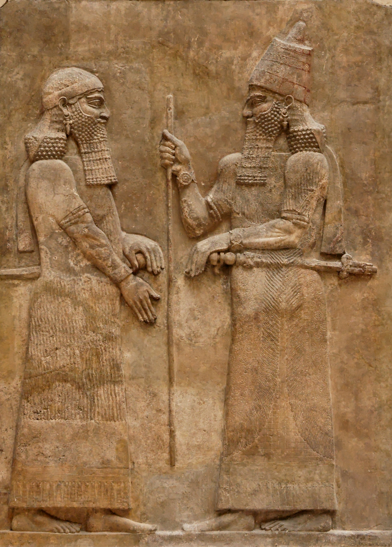 Sargon II and dignitary. Low-relief from the L wall of the palace of Sargon II at Dur Sharrukin in Assyria (now Khorsabad in Iraq), c. 716–713 BC.